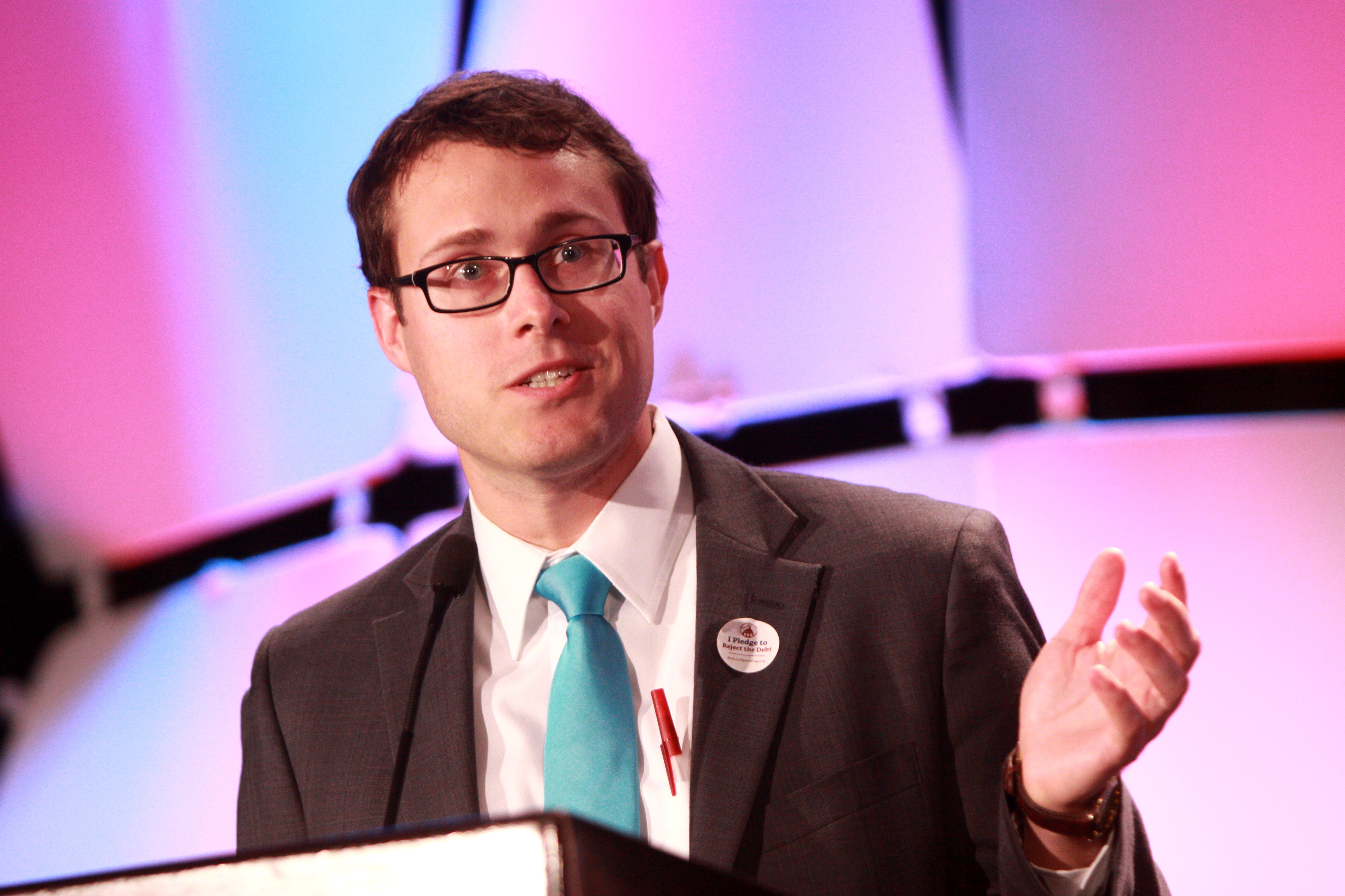 Jonathan Bydlak speaking at the 2013 Liberty Political Action Conference (LPAC) in Chantilly, Virginia.